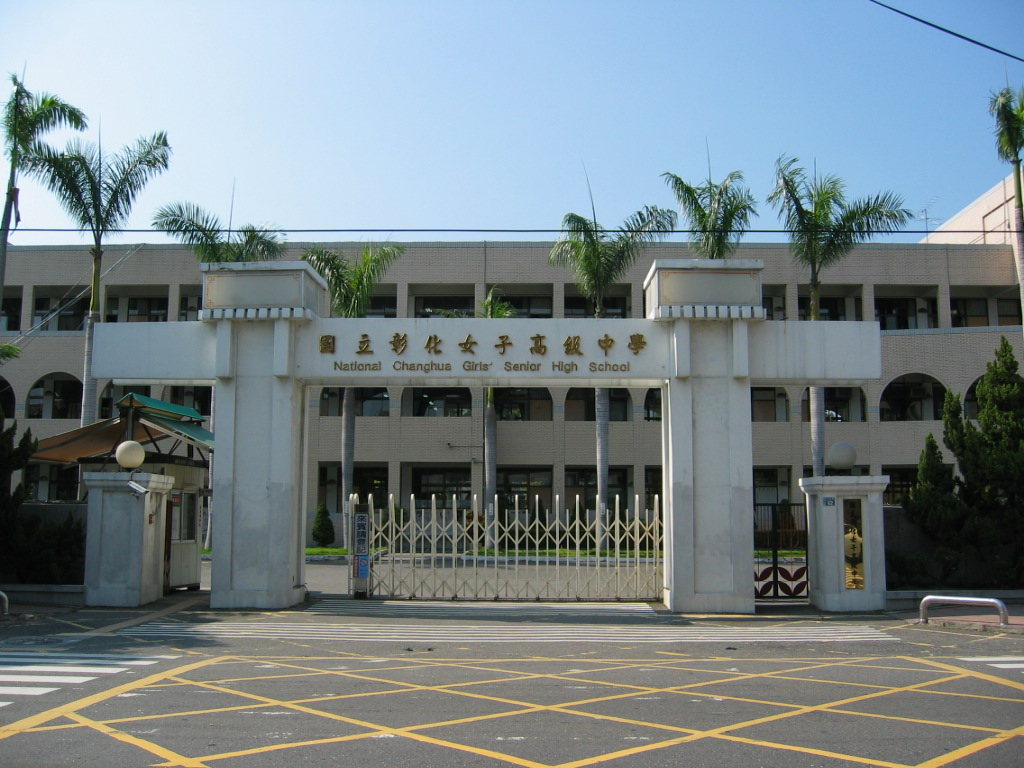 National Changhua Girls' Senior High School.中文（台灣）: 臺灣彰化縣彰化市彰化女子高級中學。